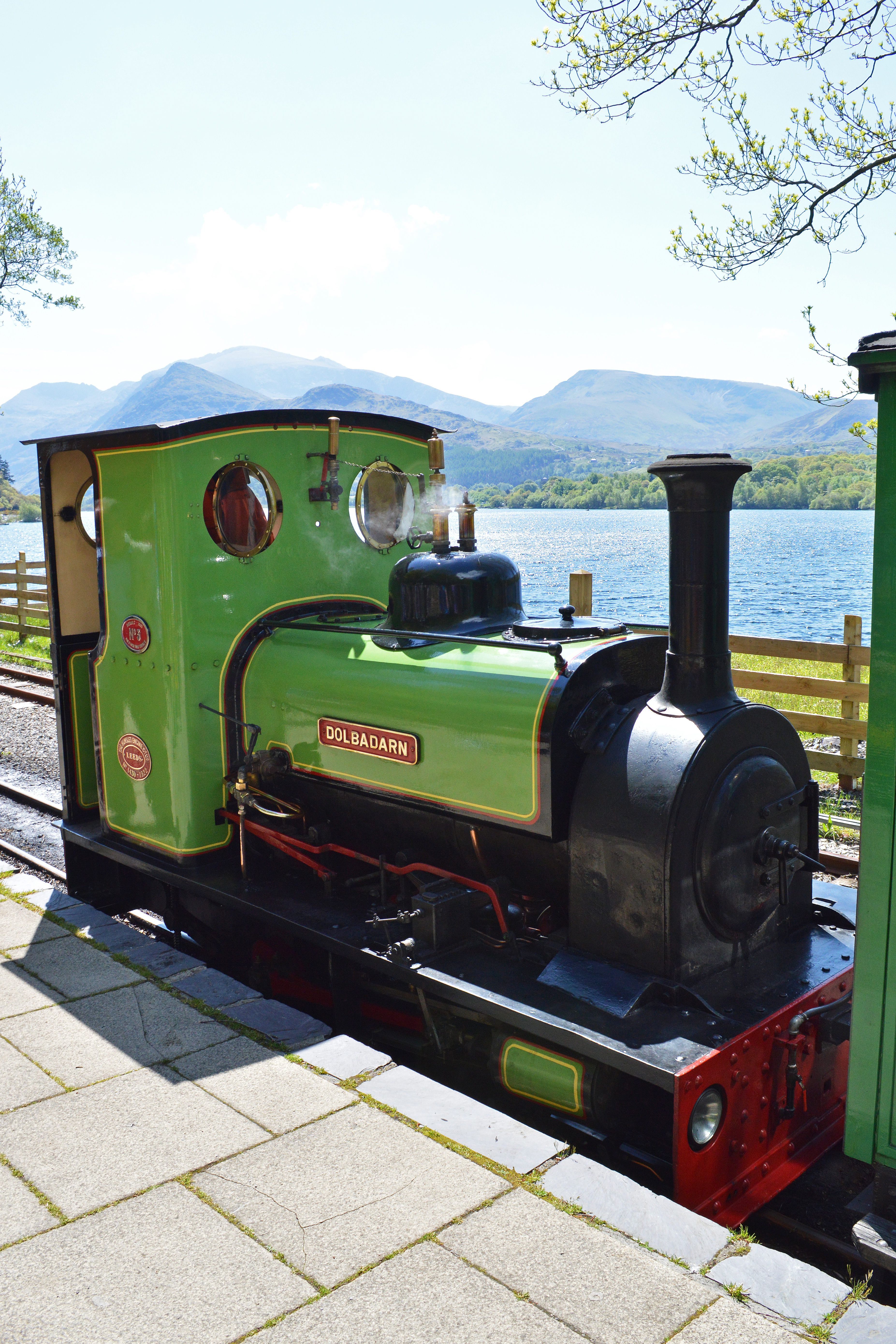 'Dolbadarn' pauses at Cel Llydan station on her return to Llanberis from Penllyn. Trains have a five minute pause here for refreshments and photos. Mount Snowdon is visible as an appropriate background! Llanberis Lake Railway. 26-5-2013